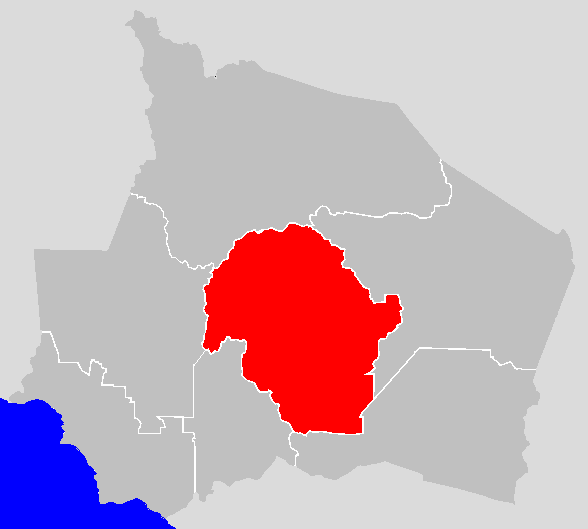 district map of Negeri Sembilan , Malaysia (using [1] as reference)